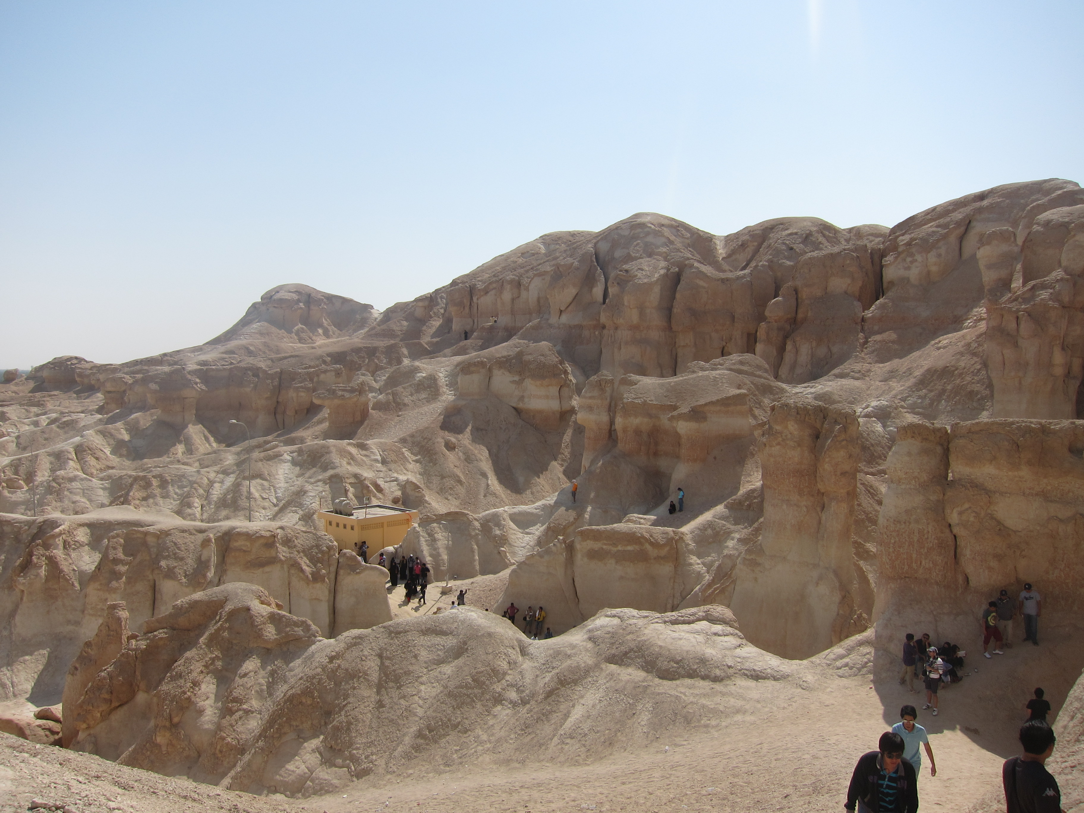 Jabal Al Qara Cave, Al Hassa, Saudi Arabia